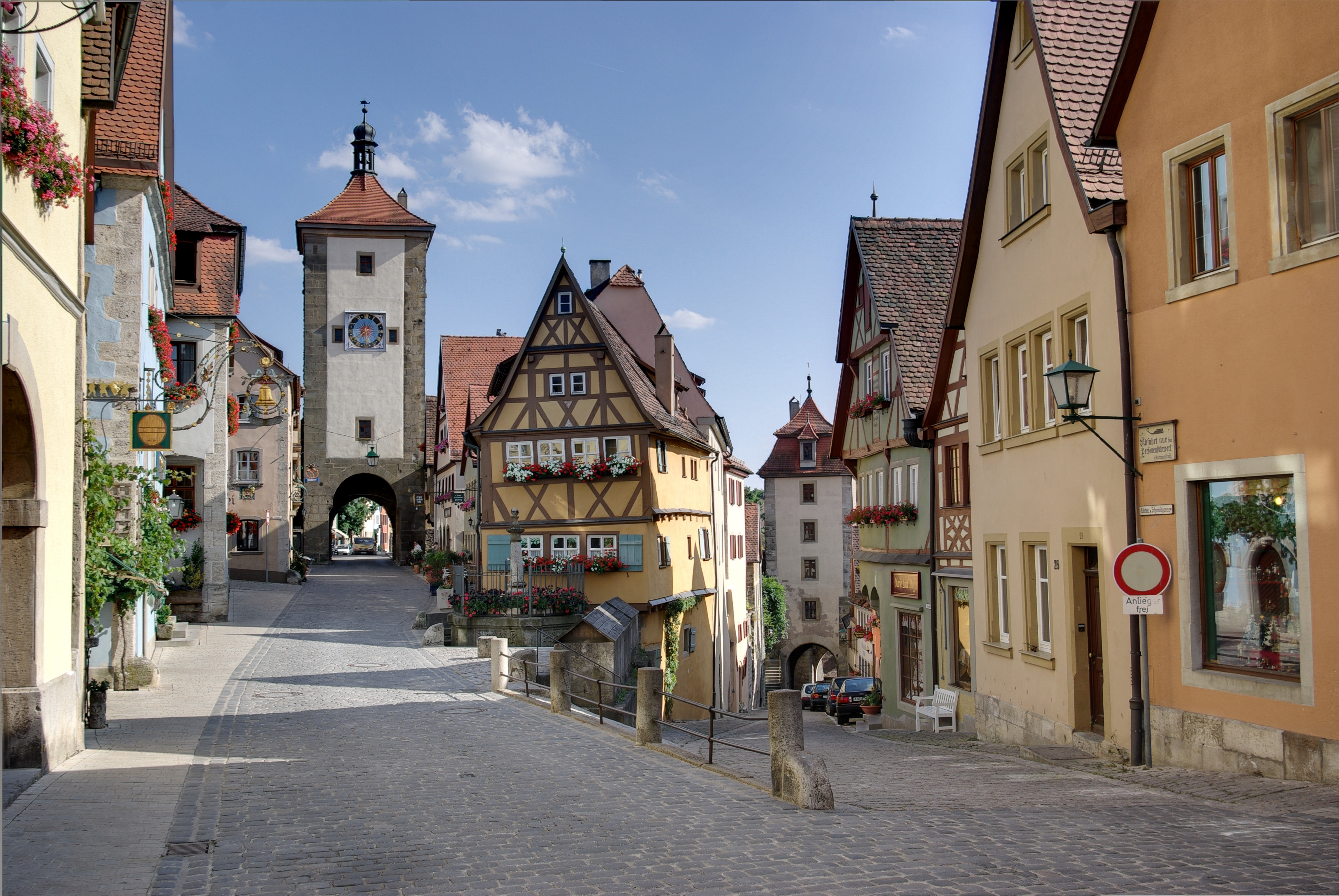 Rothenburg ob der Tauber, the place is called Plönlein a former marketplace, on the left side the Siebers-gate on the right the Kobolzeller-gate. This is one of the most photographed and painted places in Germany